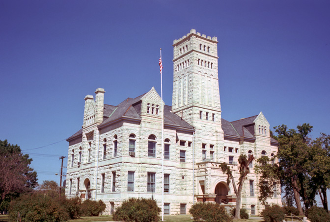 Geary County Courthouse (Built 1899), Junction City, Kansas